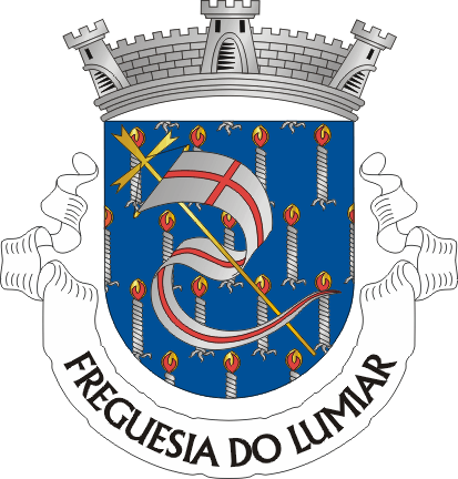 Crest of Lumiar parish, Lisboa municipality (Portugal)